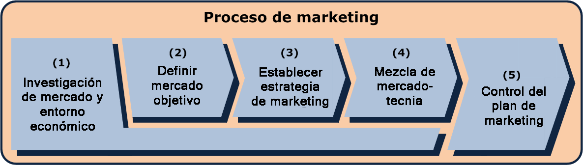 The model shows the marketing process in 5 different steps. It is based on Kotler.